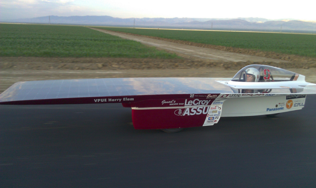 Stanford University's 10th solar car, Xenith, during test runs in the San Joaquin Valley.